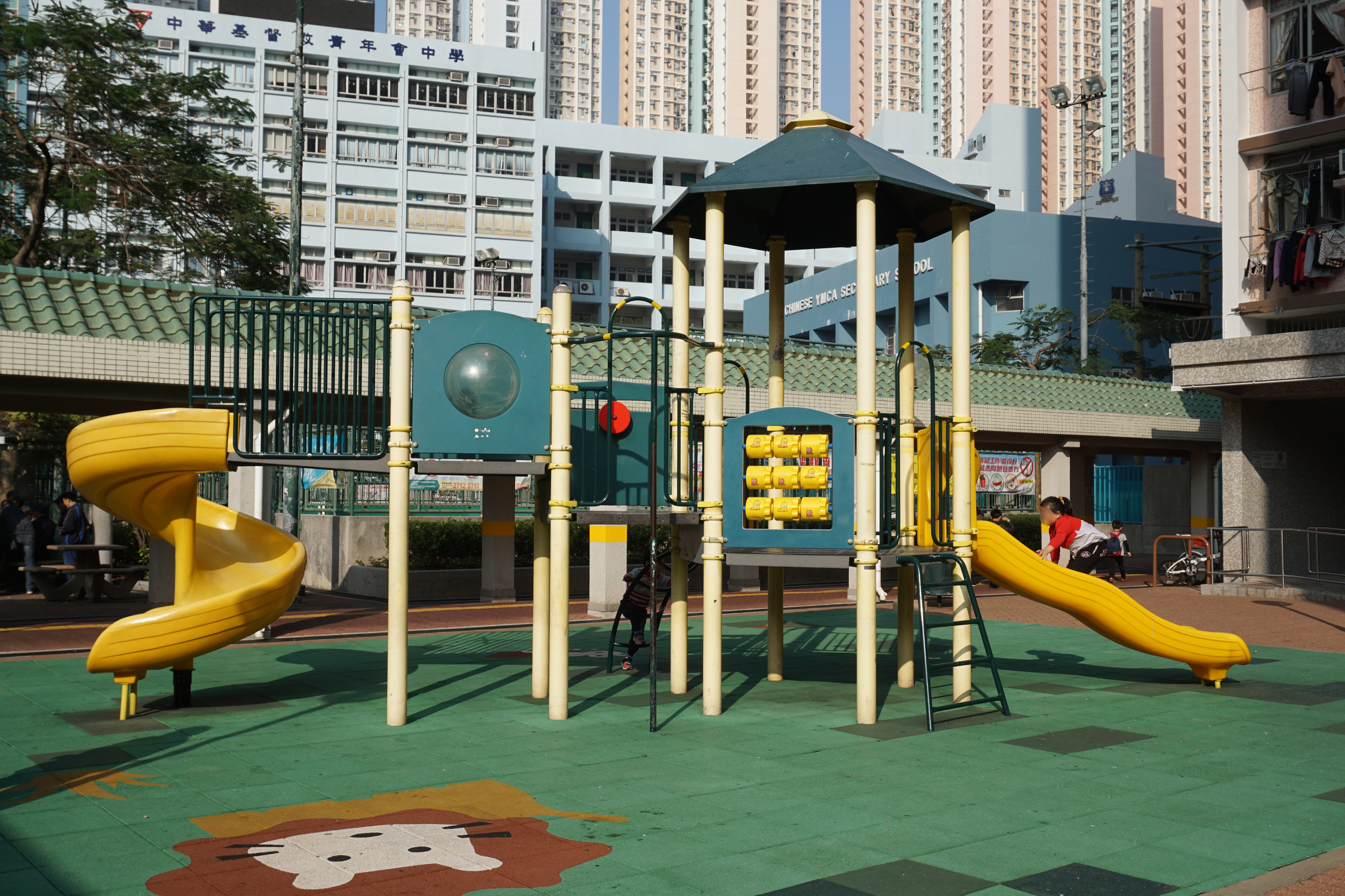 Tin Yuet Estate in Tin Shui Wai, Hong Kong.